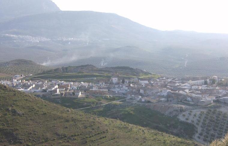 Garciez- is a small rural town in the Spanish province of Andalusia, surrounded completely by farming, near the Pantano Grande. Population 497 (from English Wikipedia)